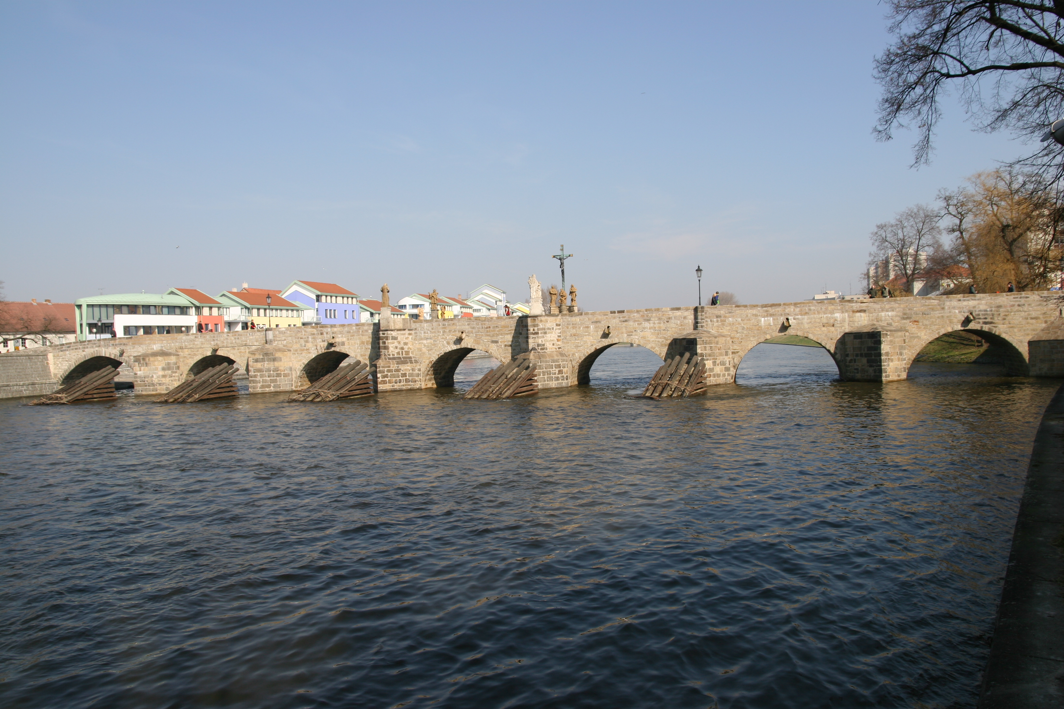 Gothic bridge of Pisek